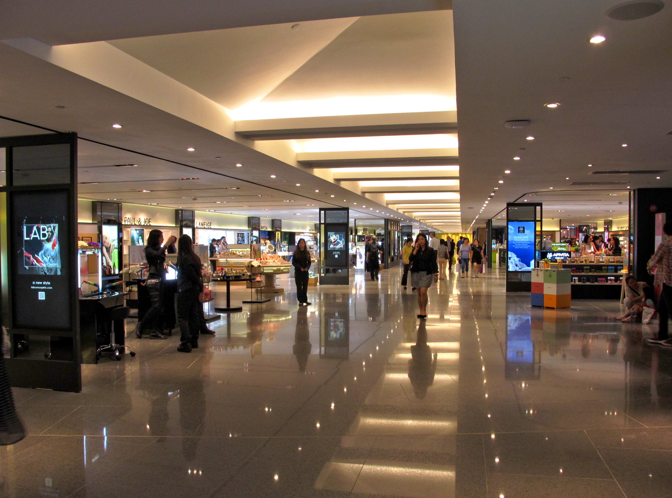 LAB Concept Interior